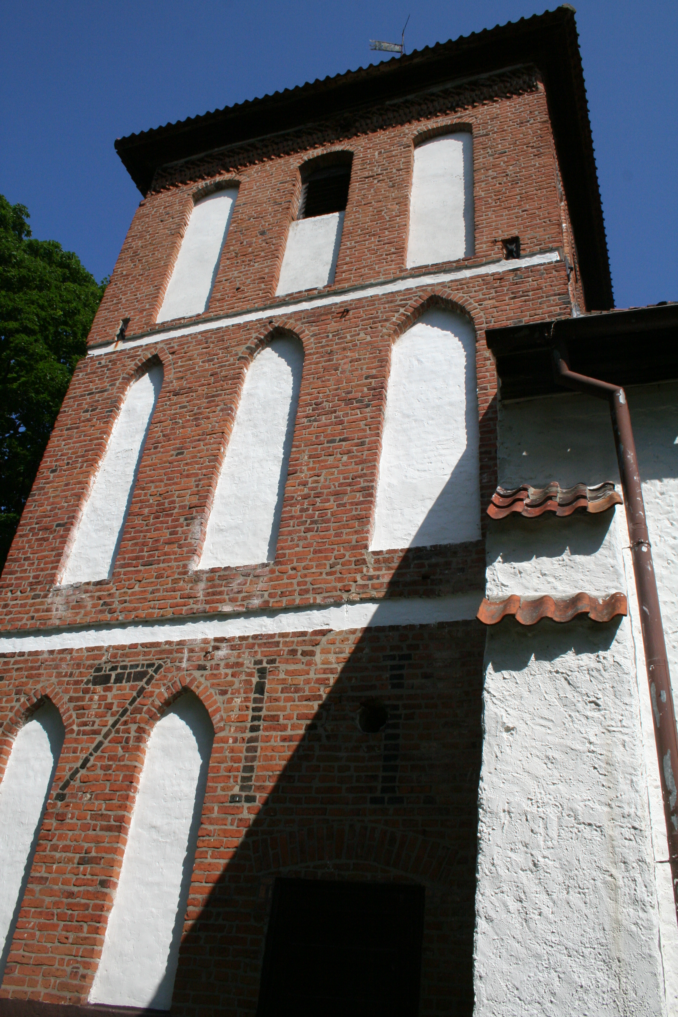 Lutheran Church in Sorkwity